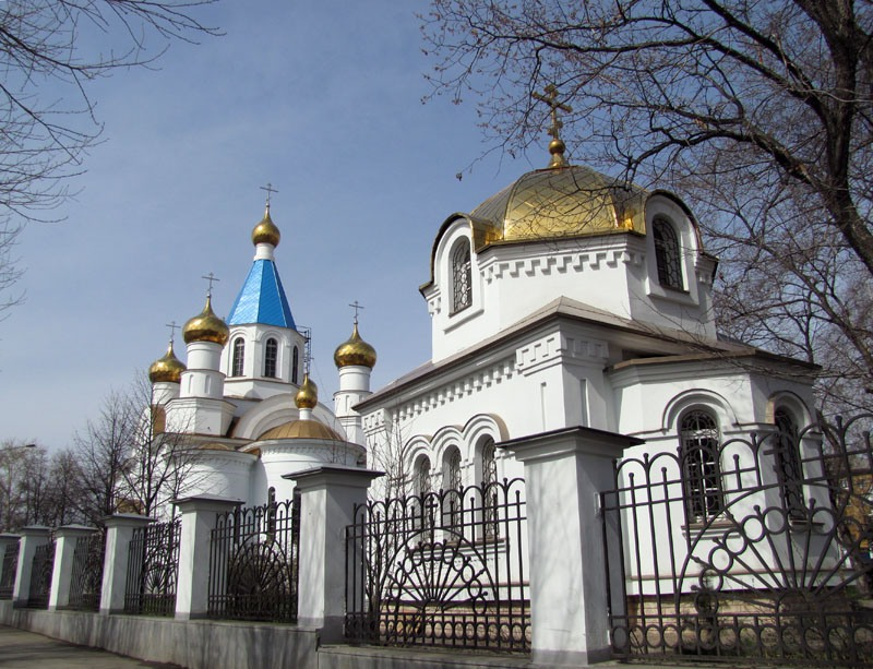 Храм Рождетсва Христова